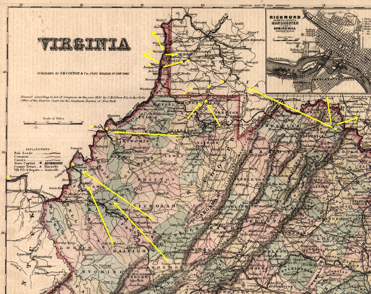 Routes for escaping slaves through western (West) Virginia on the Underground Railroad, information derived from William J. Switala "Underground Railroad in Delaware, Marylonad, and West Virginia", Stackpole Books, 2004, pages 108, 116-125.